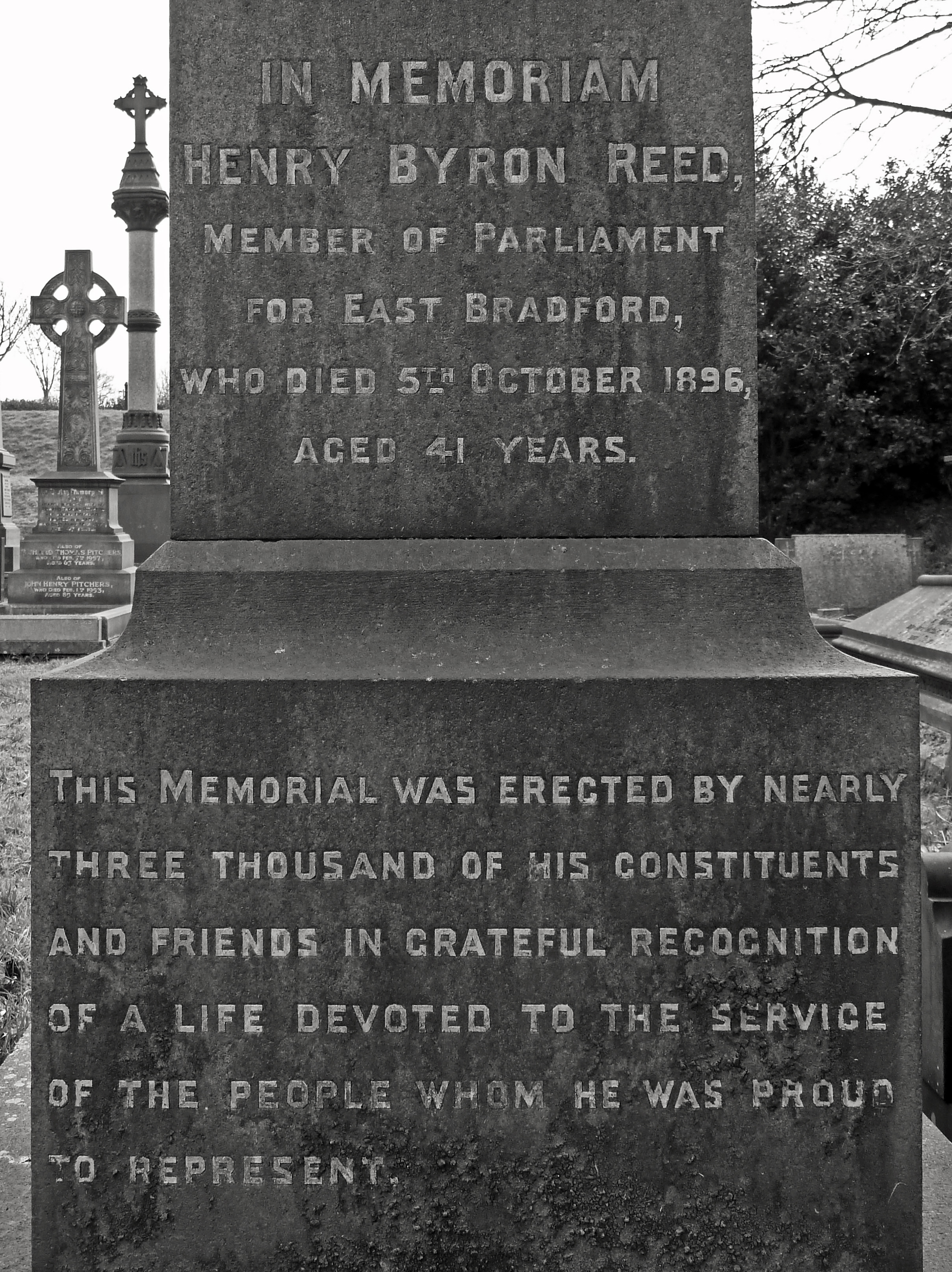 Grave of Henry Byron Reed MP, killed in an accident on the Isle of Wight, Undercliffe Cemetery, Bradford